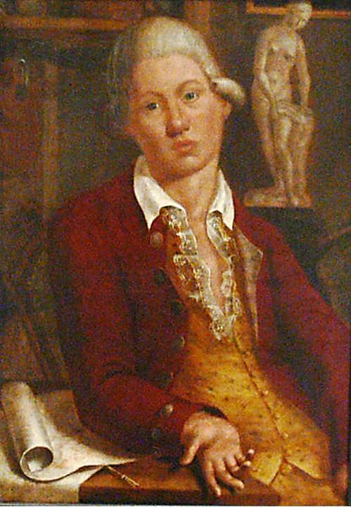 Self-portrait of Wendelin Moosbrugger (1760-1830)